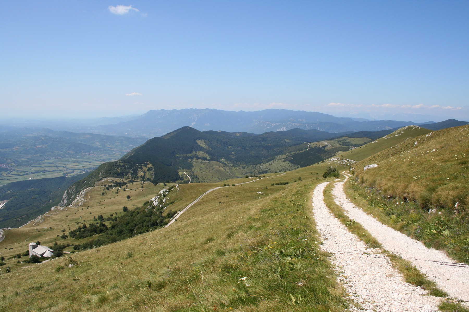 Nanos mountain